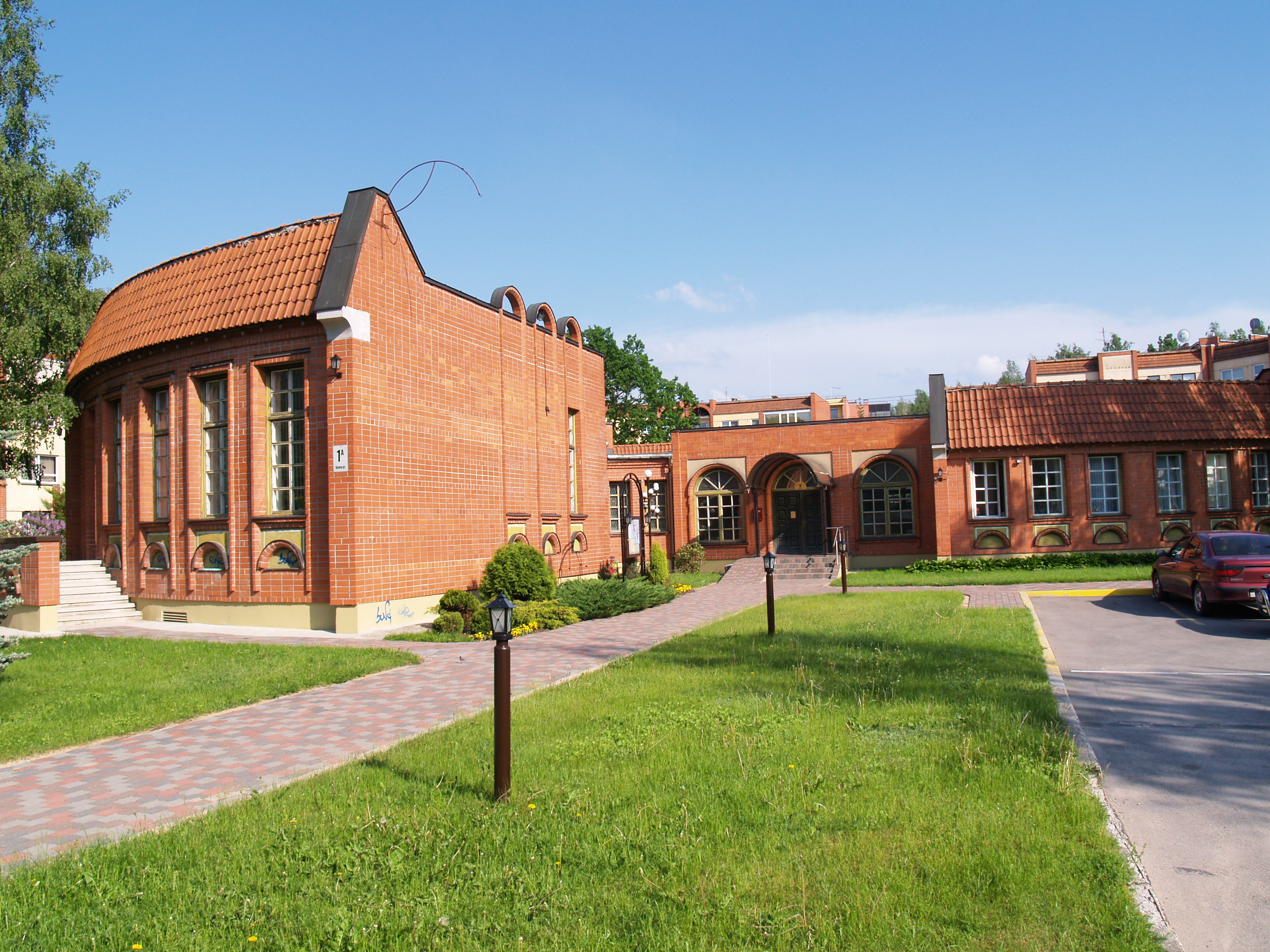 Titurgas Dome (Titurga municipality)